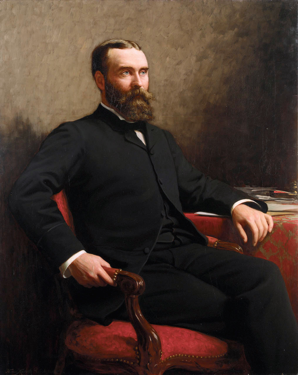 William Denny, 1847-1887 oil on canvas 127 x 101.6 cm signed b.l.: Norman Macbeth 1888